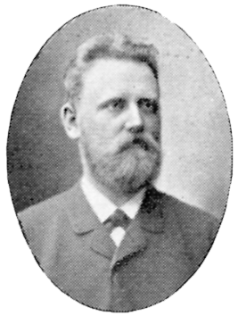 Image scanned from the book "Svenskt Porträttgalleri XX - Arkitekter, Bildhuggare, Målare m.fl. " ("Swedish Portrait Gallery XX - Architects, Sculptors, Painters, ") published 1901